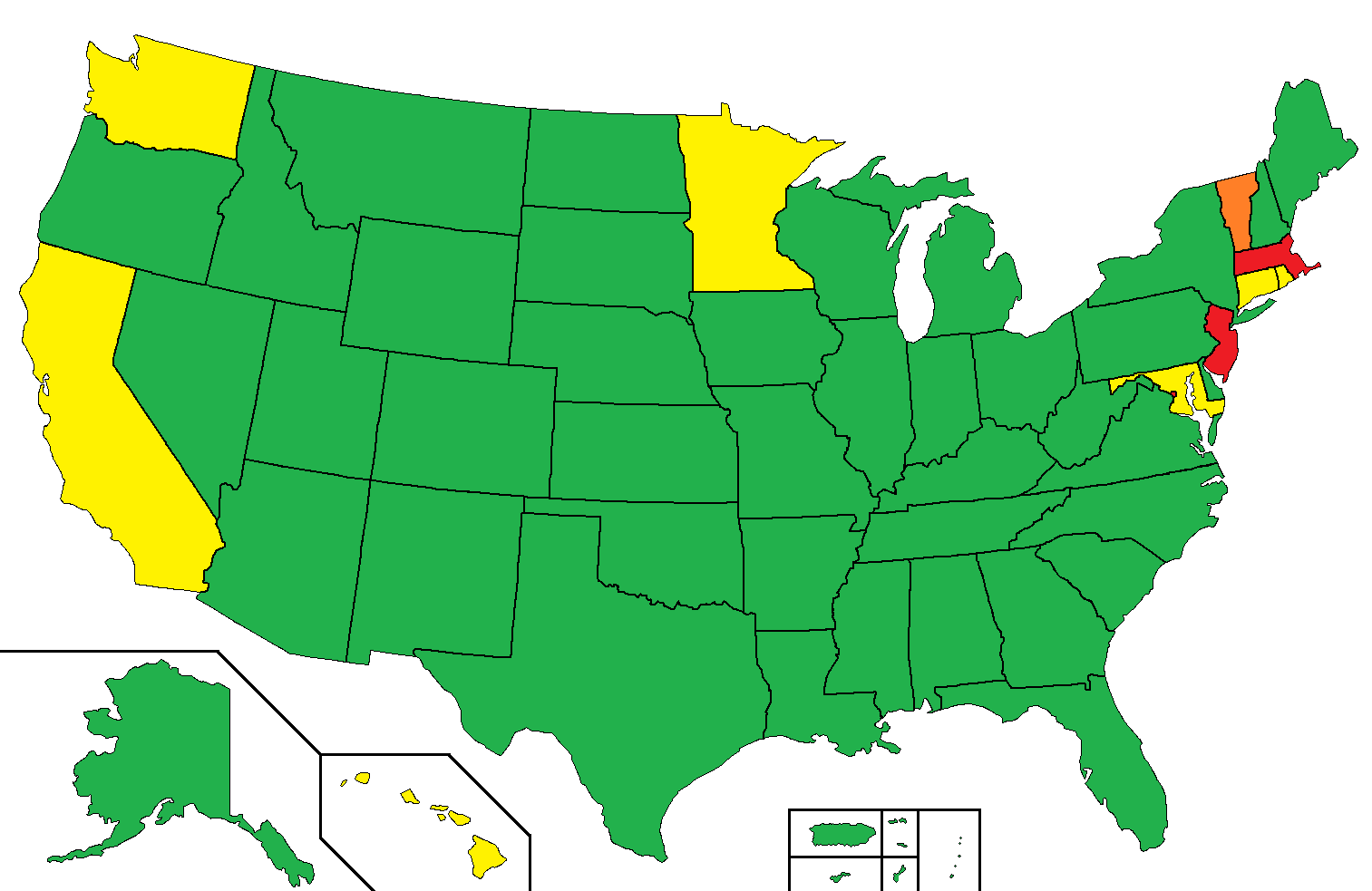 Red: Jurisdictions with a penalty for residents without health insurance starting in 2019. Orange: Jurisdictions with a penalty for residents without health insurance starting in 2020. Yellow: Jurisdictions actively considering imposing a penalty for residents starting in 2020. Green: Jurisdictions that do not penalize residents for not having health insurance and not currently considering such legislation.